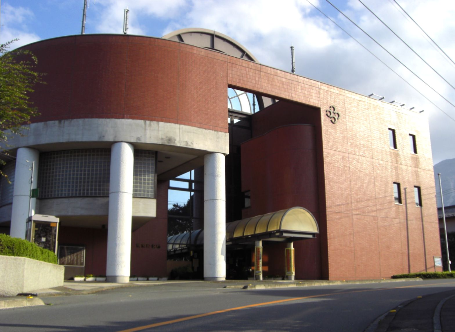 Yokoze Town Hall, Yokoze, Saitama, Japan